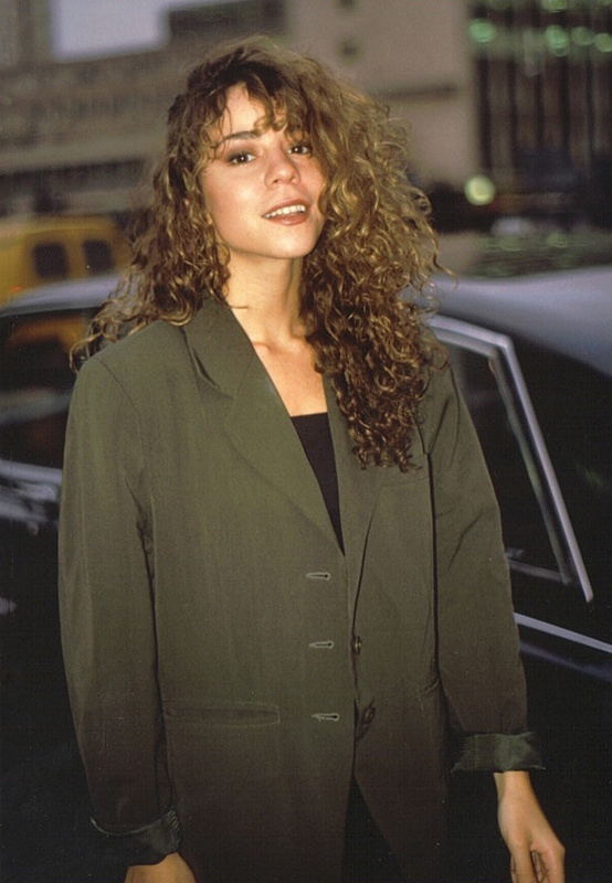 Mariah Carey exiting the Shepherd's Bush Theatre after promoting her single "Vision of Love" on The Wogin Show, in 1990.